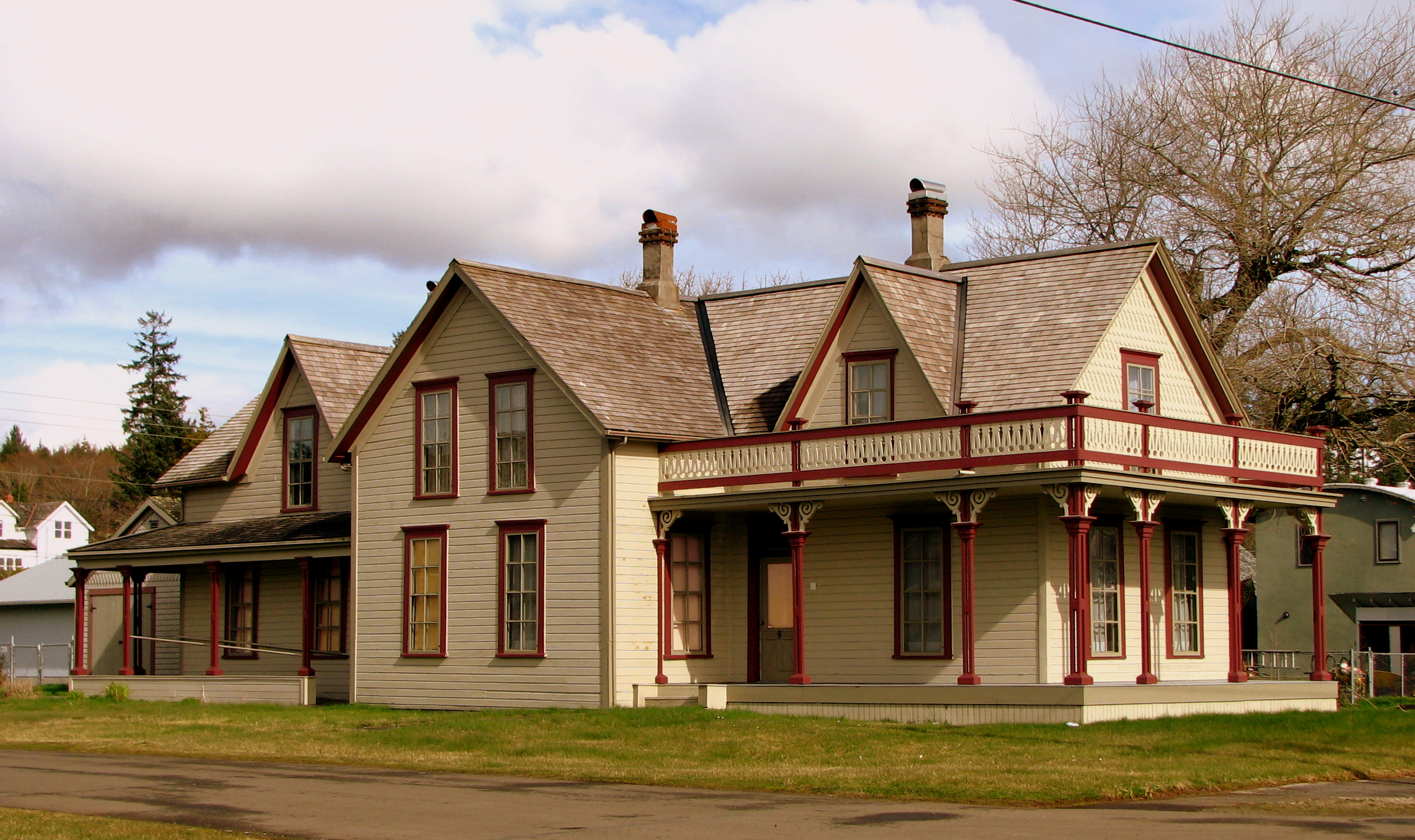 The historic Colbert House, located at the intersection of Quaker and Lake Streets in Ilwaco, Washington, United States, is listed on the US National Register of Historic Places (NRHP).